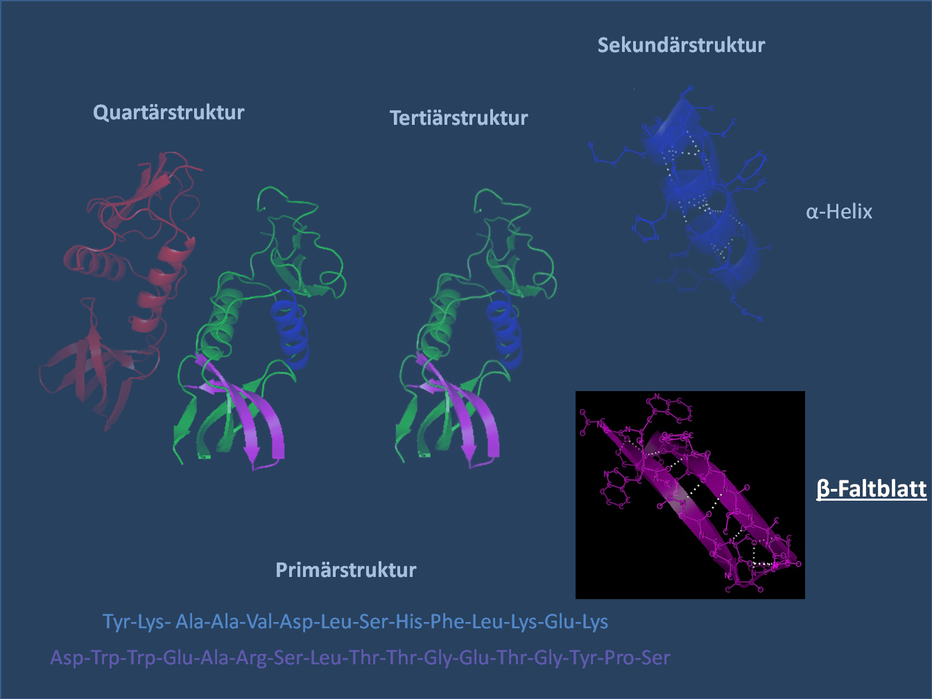 Faltung des Proteins 1EFN mit Fokus auf das β-Faltblatt